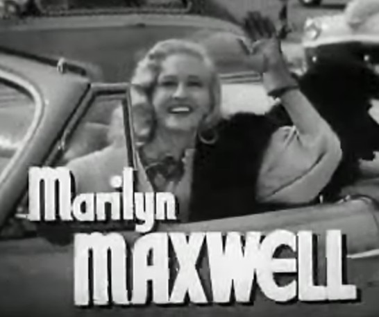 Cropped screenshot of Marilyn Maxwell from the trailer for the film High Barbaree.